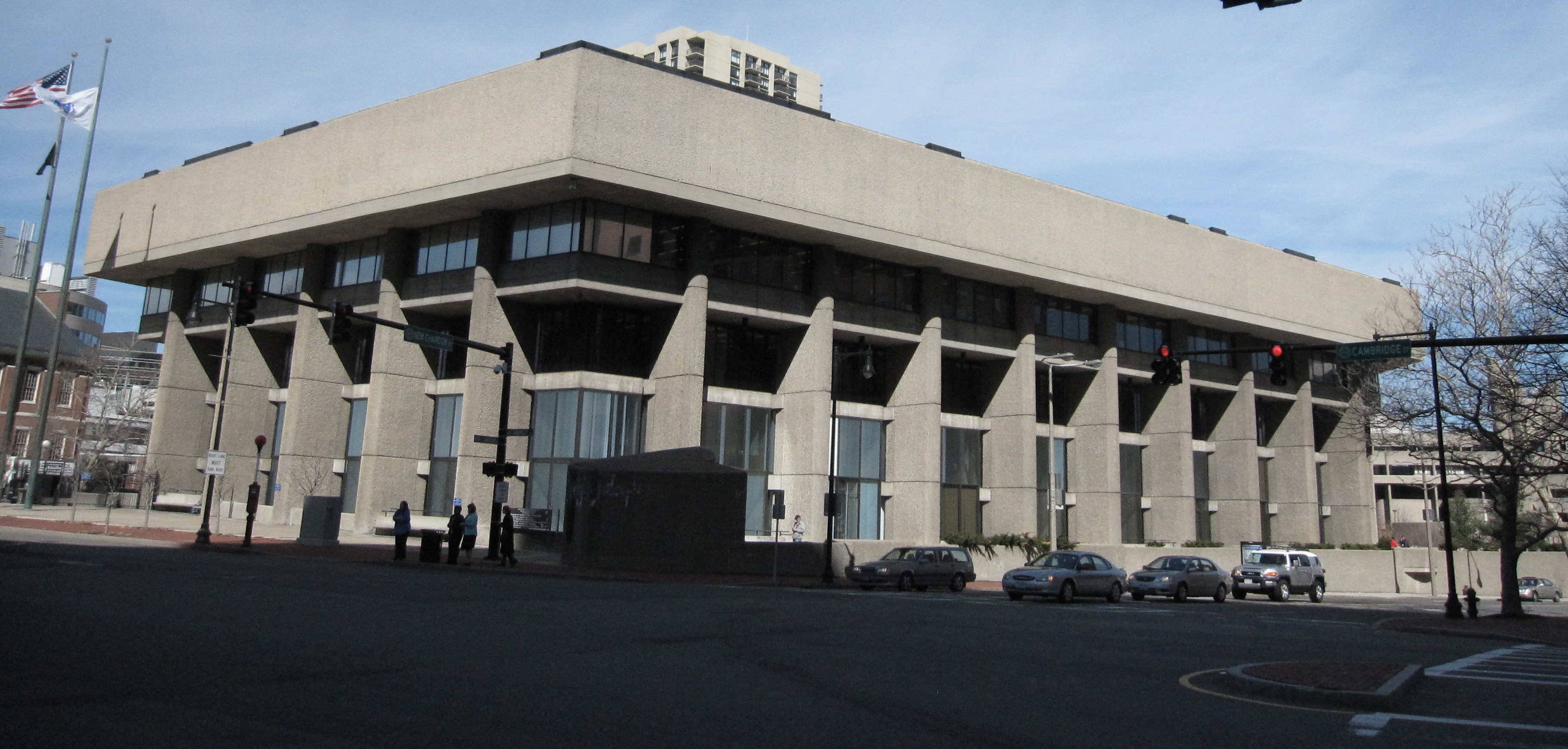 Boston, Massachusetts, March 2010